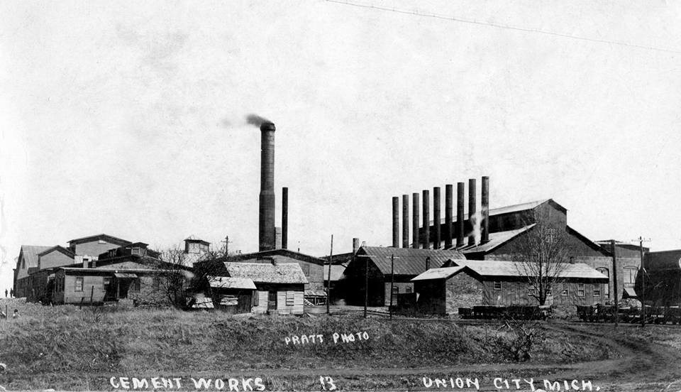 Peerless Portland Cement Company Railroad (P.P.C.Co.R.R.) in Union City, Michigan.